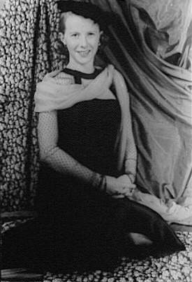 Actress Julie Harris photo taken by Carl Van Vechten, photographer. Portrait of Julie Harris, as Sally Bowles in I Am a Camera